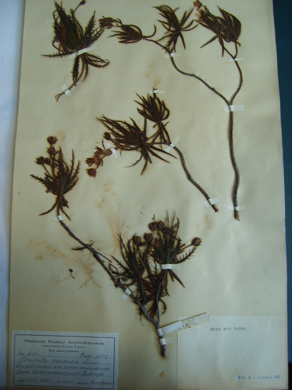 Herbarium specimen of Roridula dentata deposited at the Museum National d'Histoire Naturelle in Paris, France.